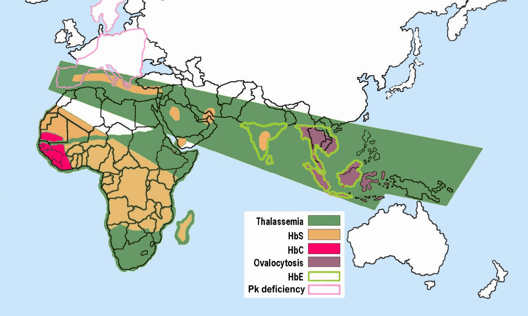 Description Malaria versus sickle-cell trait distributions